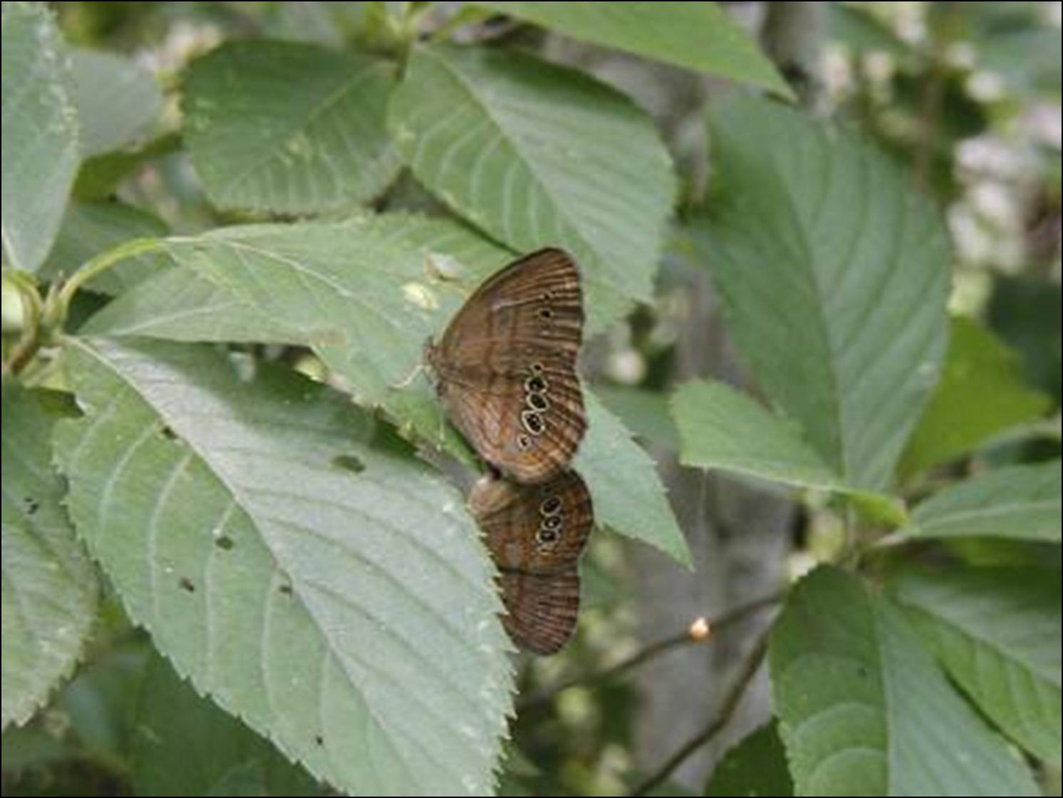 Mating pair of St. Francis' satyr Neonympha mitchellii francisci on Ft. Bragg